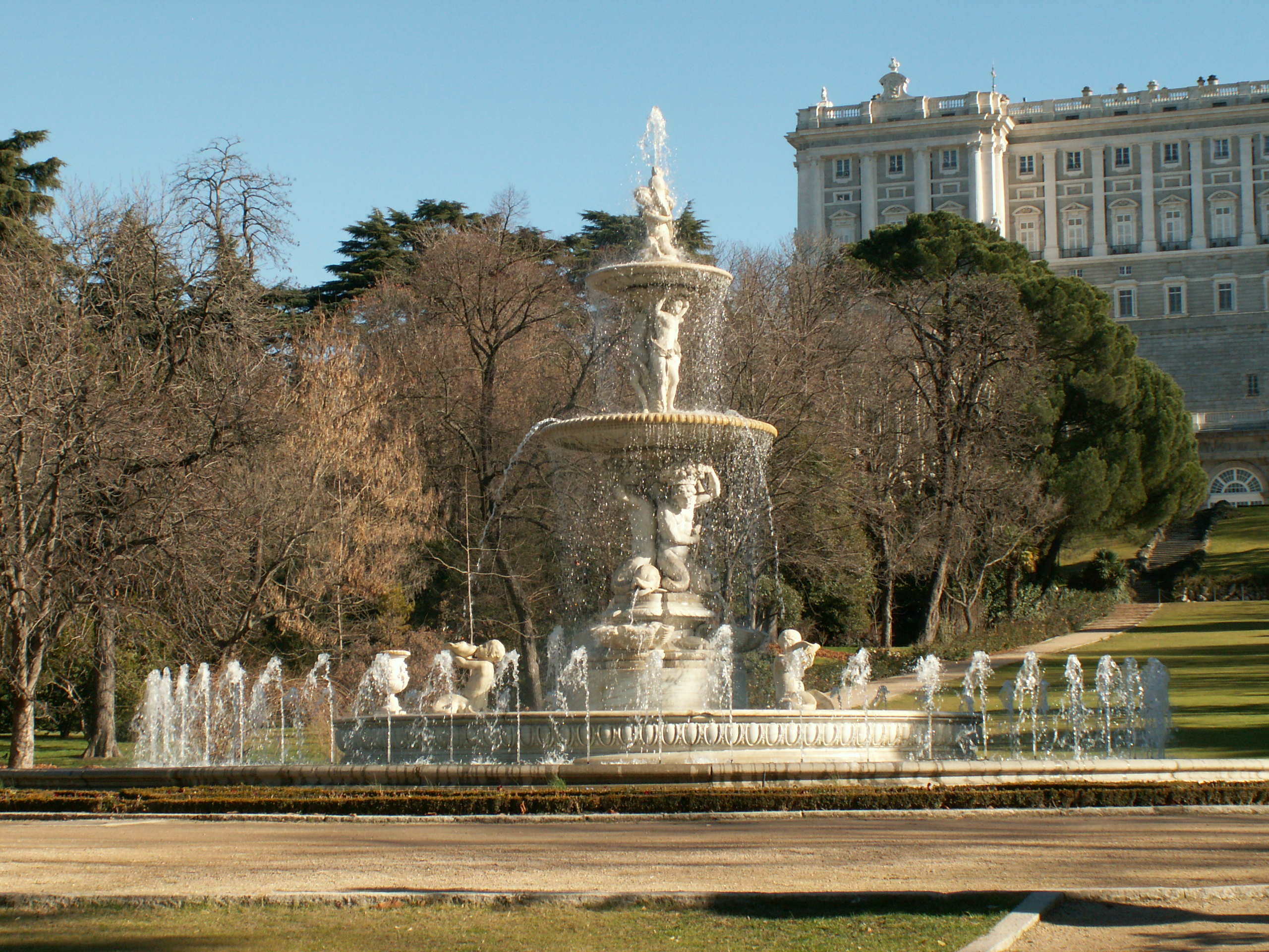 Fuente de las Conchas ("Shells Fountain"), in the Campo del Moro, gardens beside the Royal Palace of Madrid (in the background), in Madrid (Spain). Designed by Ventura Rodríguez and sculpted in marble by Francisco Gutiérrez and Manuel Álvarez in the second half of the 18th century.